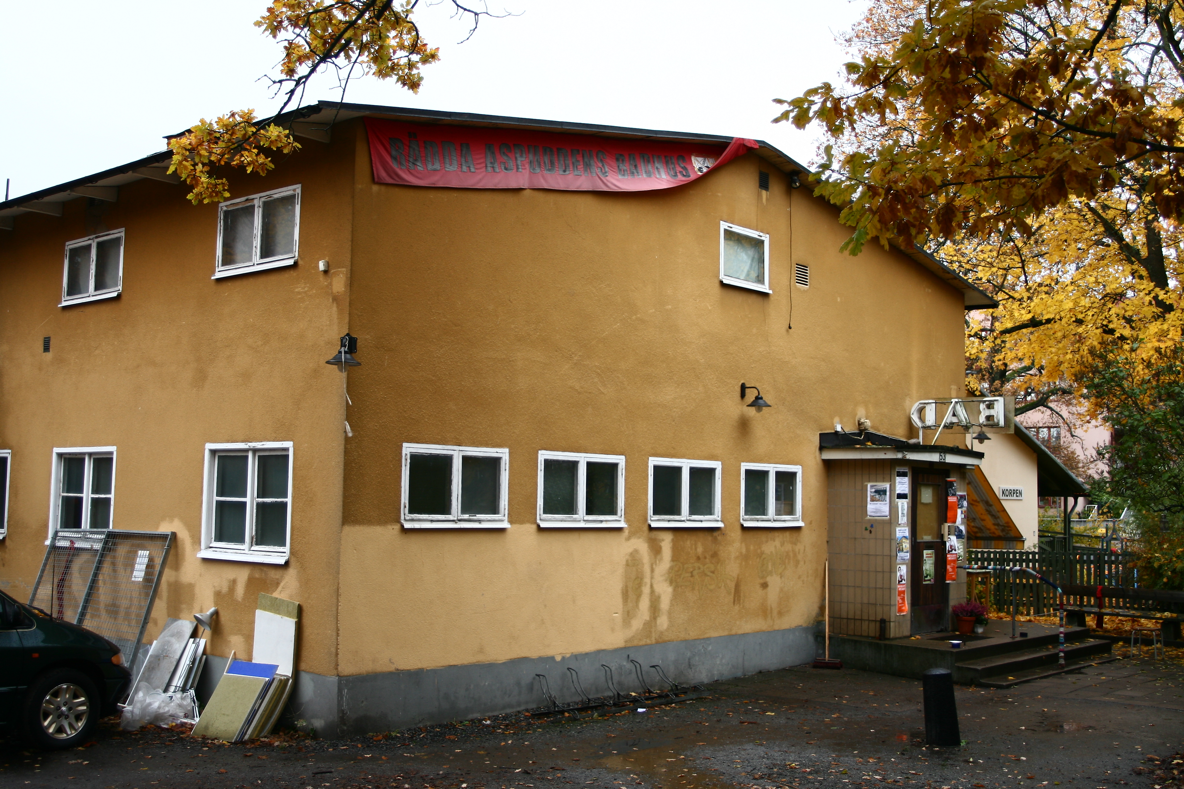 Public swimbath in Aspudden, Stockholm, under occupation.